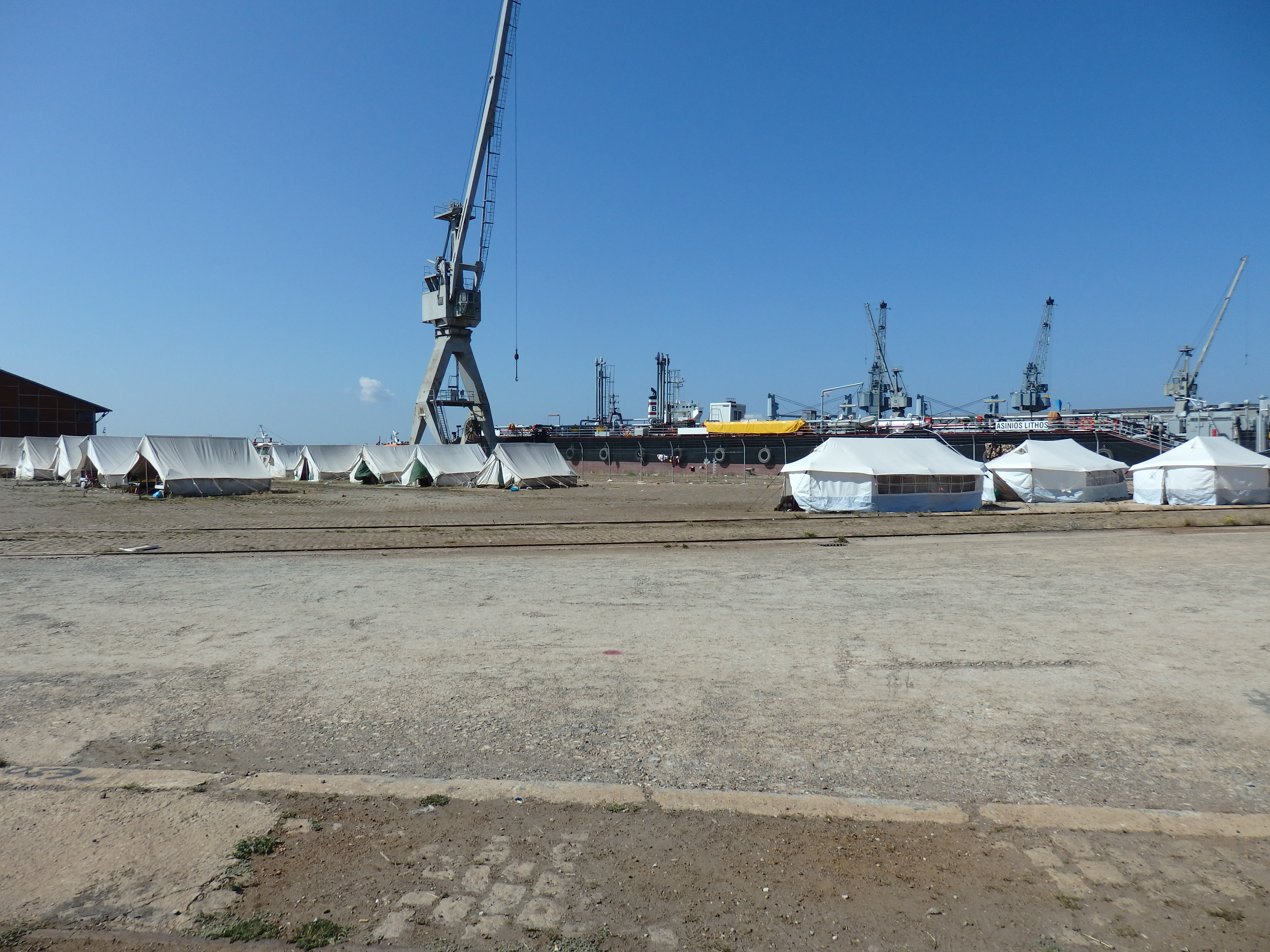 View of the tents of Thessaloniki port refugee camp